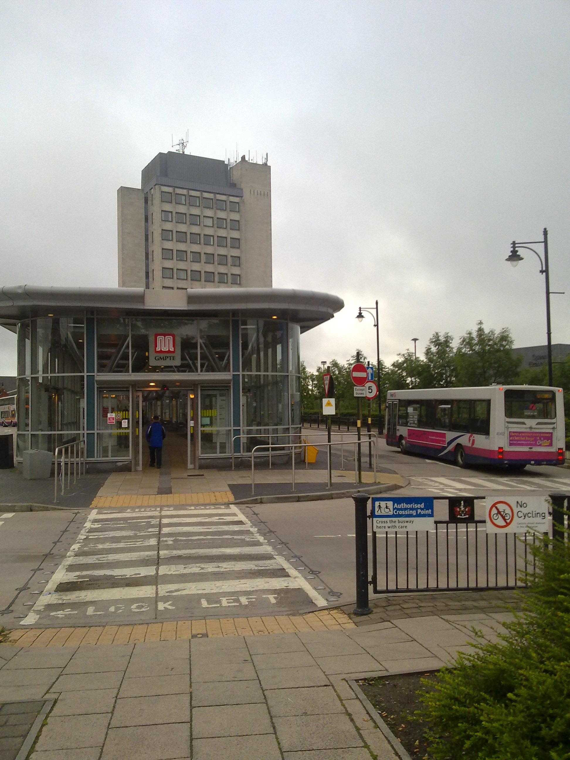 Oldham bus station in Oldham, Greater Manchester.